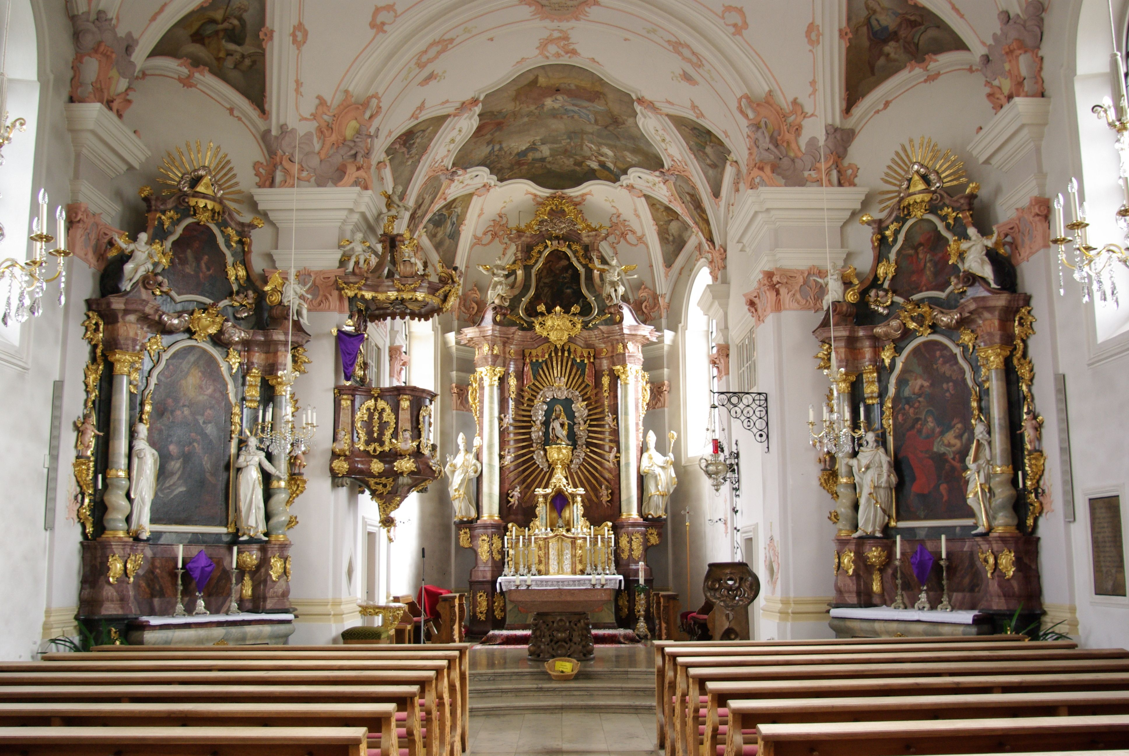 Frauenau, interior view of Parish Church of the Assumption from west.